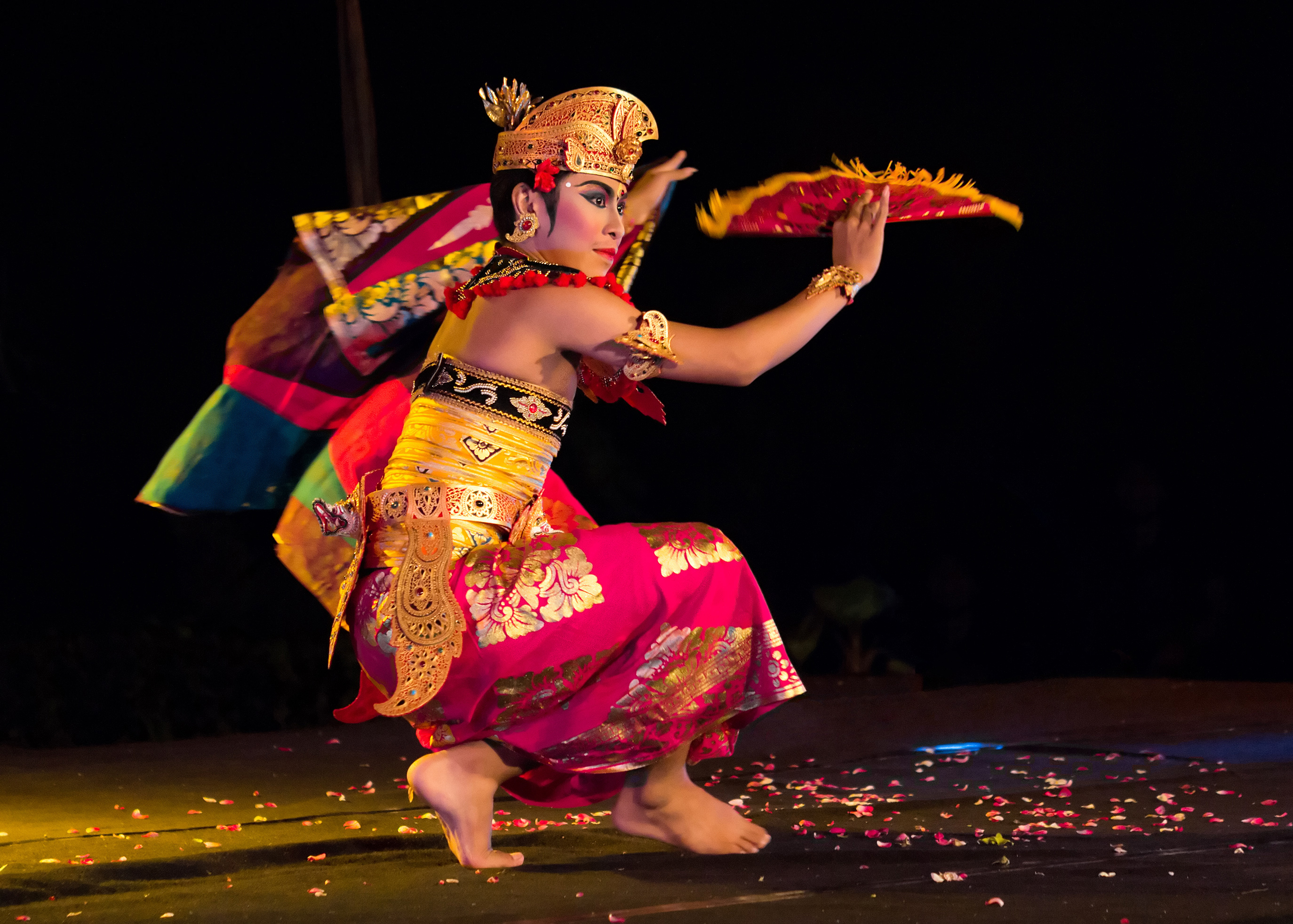 Sanata Dharma University's Sekar Jepun, a Balinese dance troupe, celebrates its 17th anniversary. Pictured here is the Kebyar Duduk Dance.